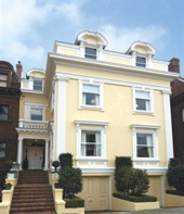 2855 Pacific Avenue, an example of Willis Polk residential architecture in San Francisco after the 1906 earthquake.